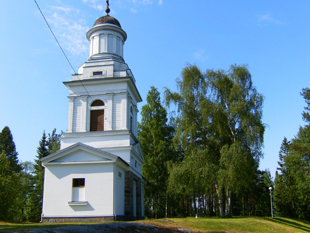 The bell tower by the Church of Jämsä, Finland